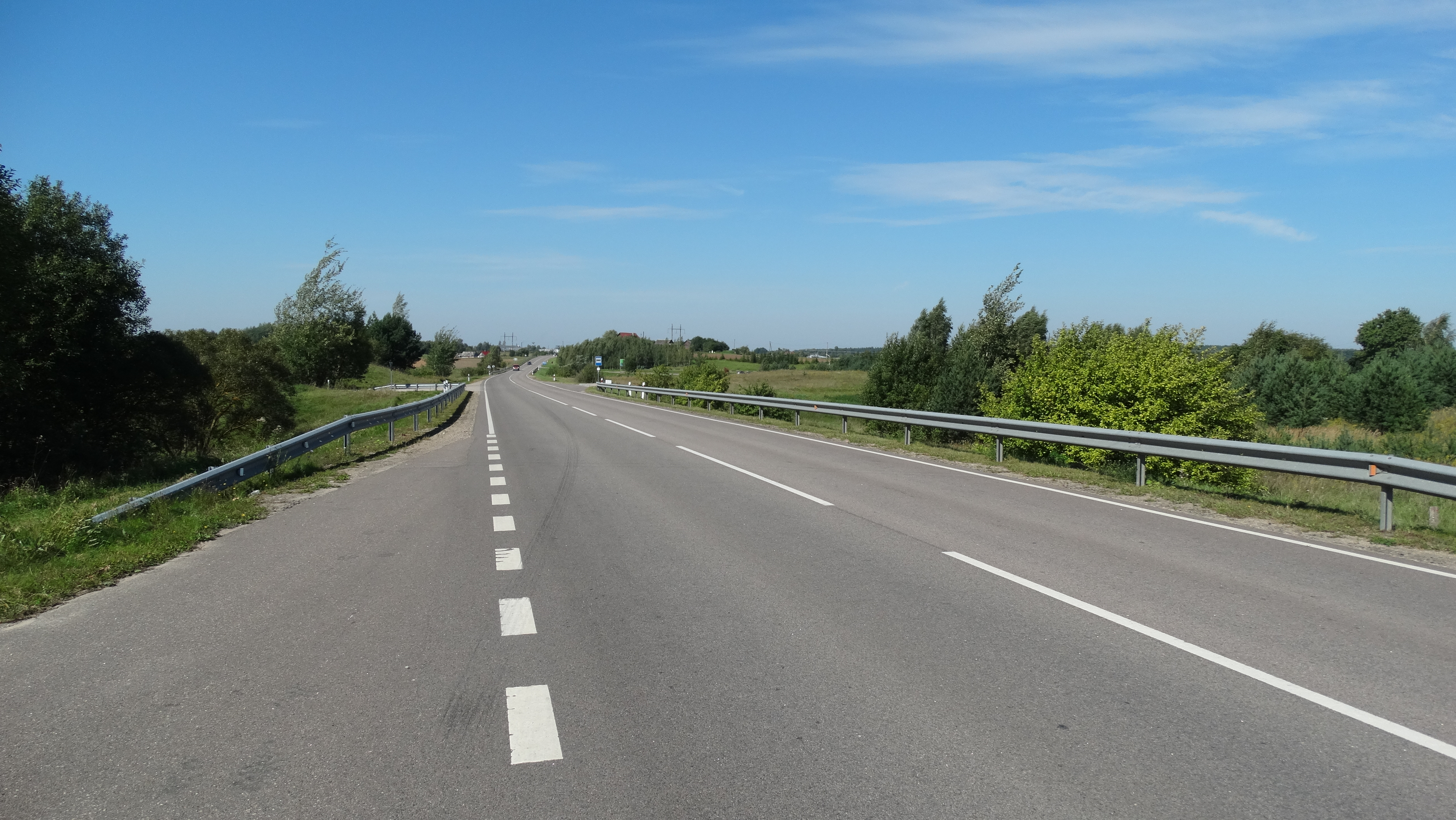 Road 107 by Vilūniškės, Elektrėnai Municipality, Lithuania